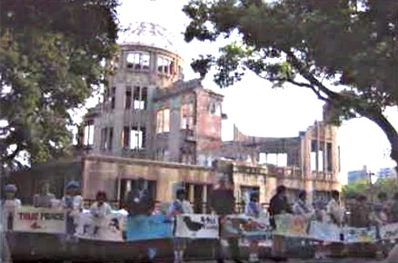 Ribbons surround the ABomb Memorial, Hiroshima for "Building a Just and Sustainable Peace" conference. Sponsored by UN NGO's International Health Awareness, Lehman College, and The Ribbon International. The Hiroshima Peace Association organized the event along with the Girl Scouts, 3, September 2006.